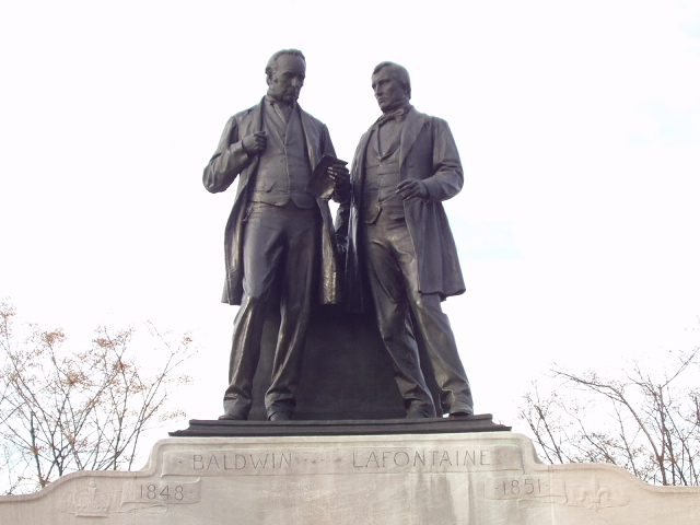 Self-taken photo. Statue of Robert Baldwin and Louis-Hippolyte Lafontaine on Parliament Hill in Ottawa.